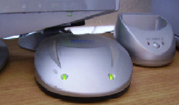 Hi! This is a photo of my ADSL modem that I have taken some days ago. I let everybody to use this image.